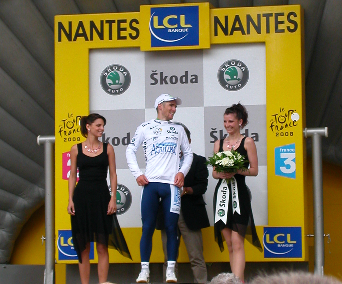 Romain Feillu puts on the white jersey at the arrival of the Tour de France 2008's 3rd stage in Nantes